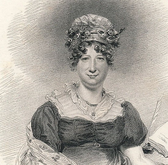 Elizabeth Isabelle Spence - author from La Belle Aseemlee 1824